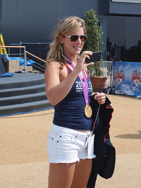 Gold medalist Erin Cafaro, London 2012.